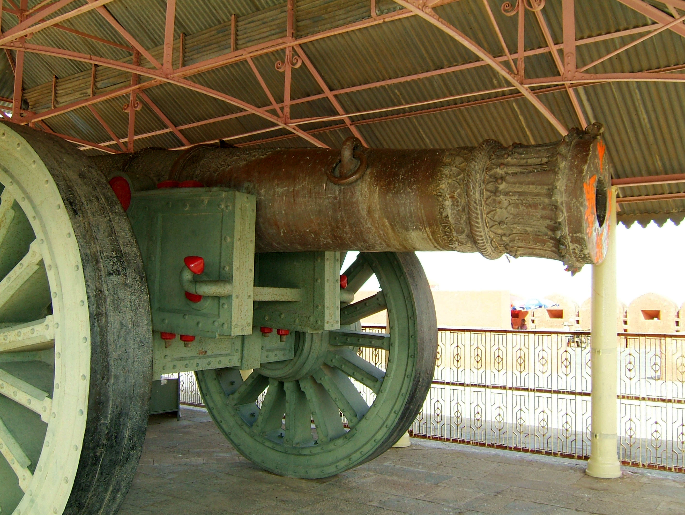 Jaivana cannon Jaigarh Fort, Jaipur, Rajasthan